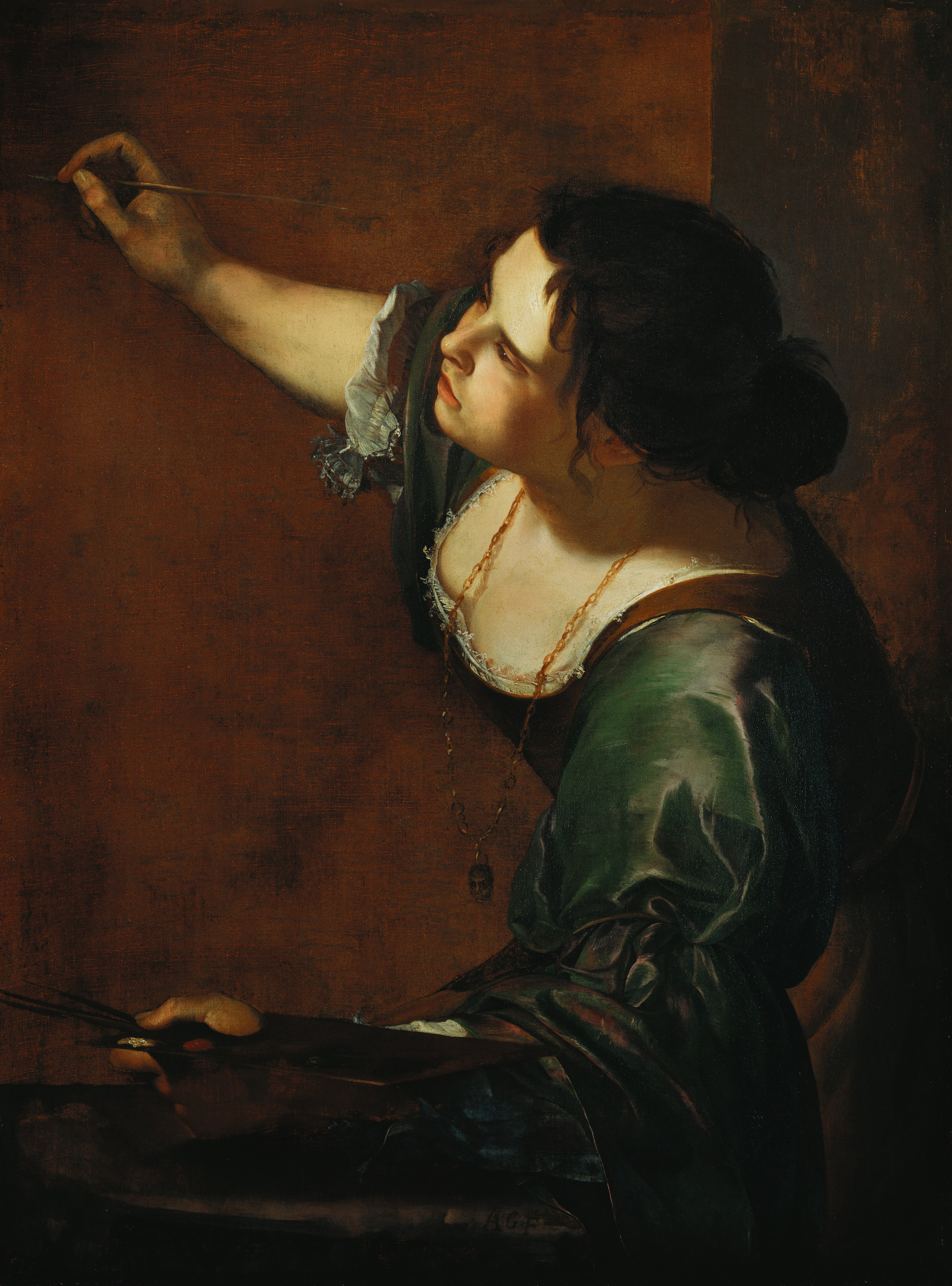 Self-portrait as the Allegory of Painting (La Pittura) - Artemisia Gentileschi. c.1638-9. Oil on canvas. 98.6 x 75.2 cm. Royal Trust Collection.